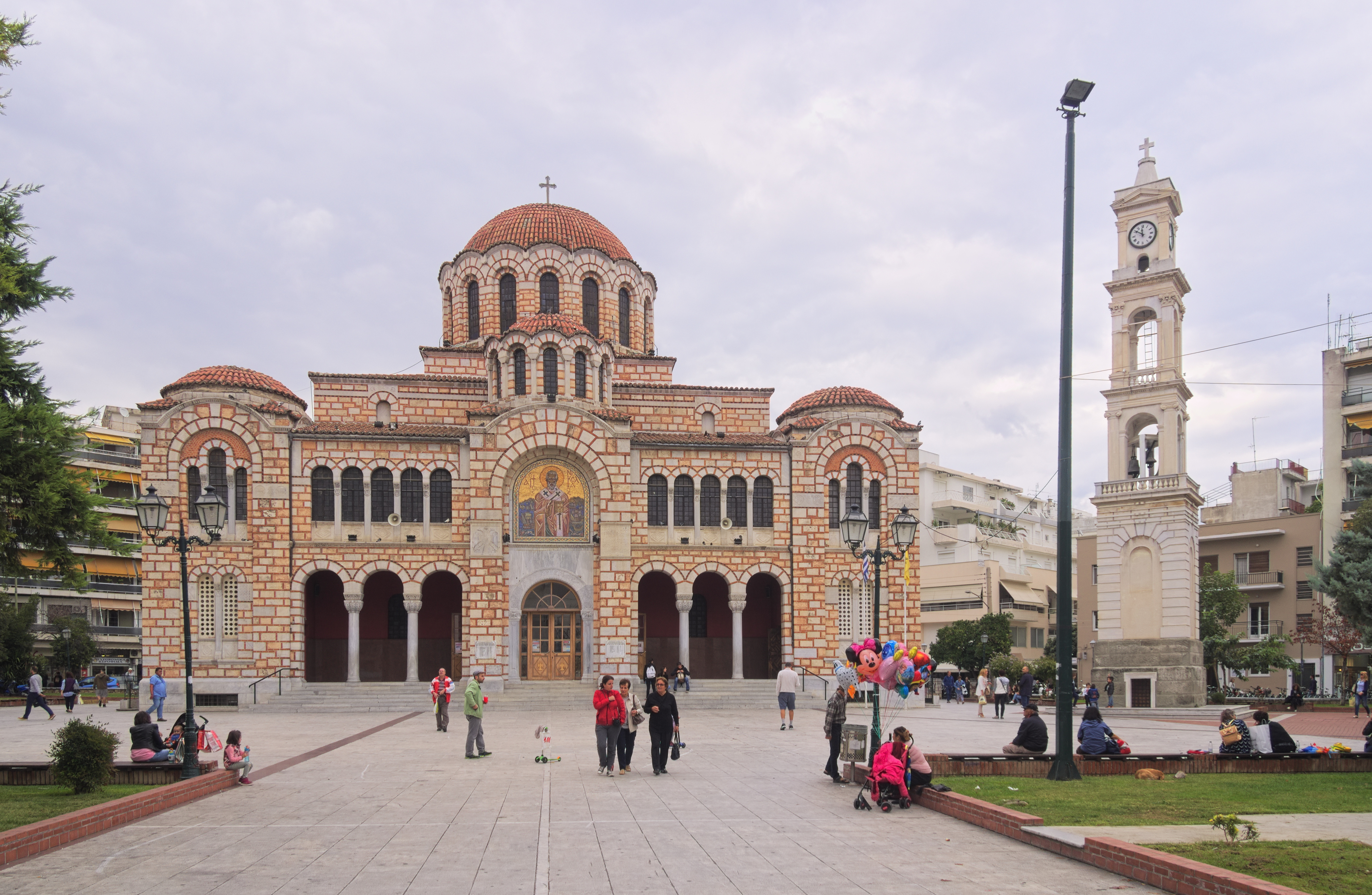 The church of Saint Nicholas in Volos and its bell tower.